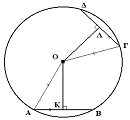 Radii and chords